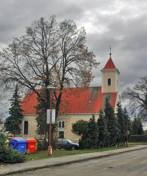 Lutheran Church, Senica, Slovakia